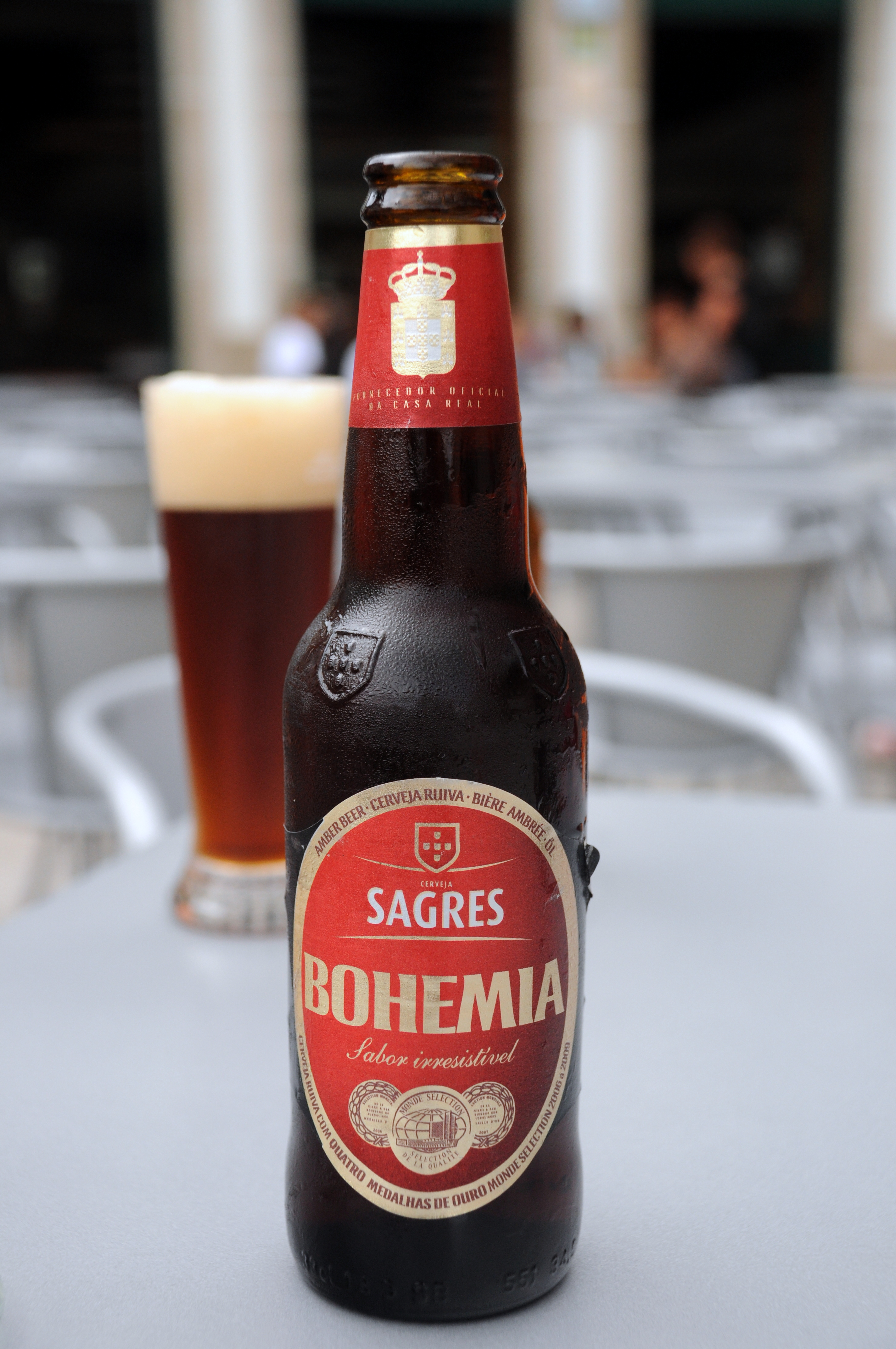 Bottle of portuguese beer Sagers Bohemia